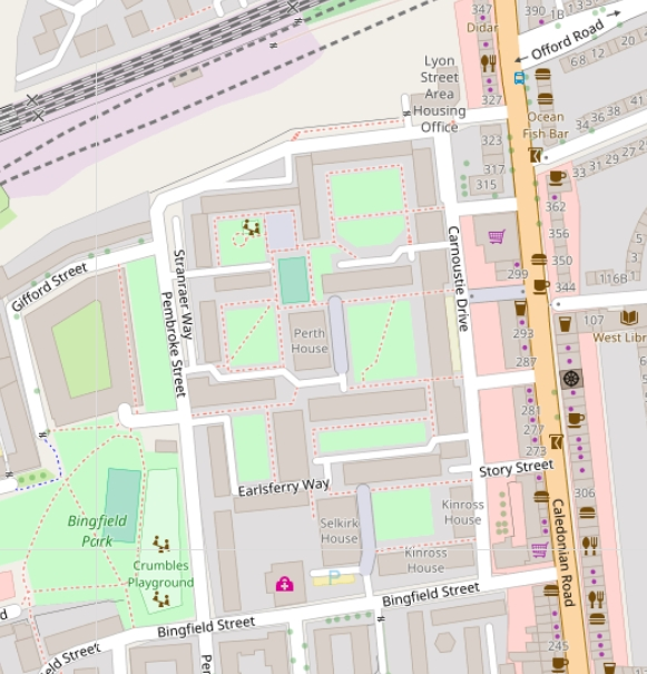 Bemerton Estate which is on the west side of Caledonian Road, Barnsbury (or near Barnsbury), Islington, London